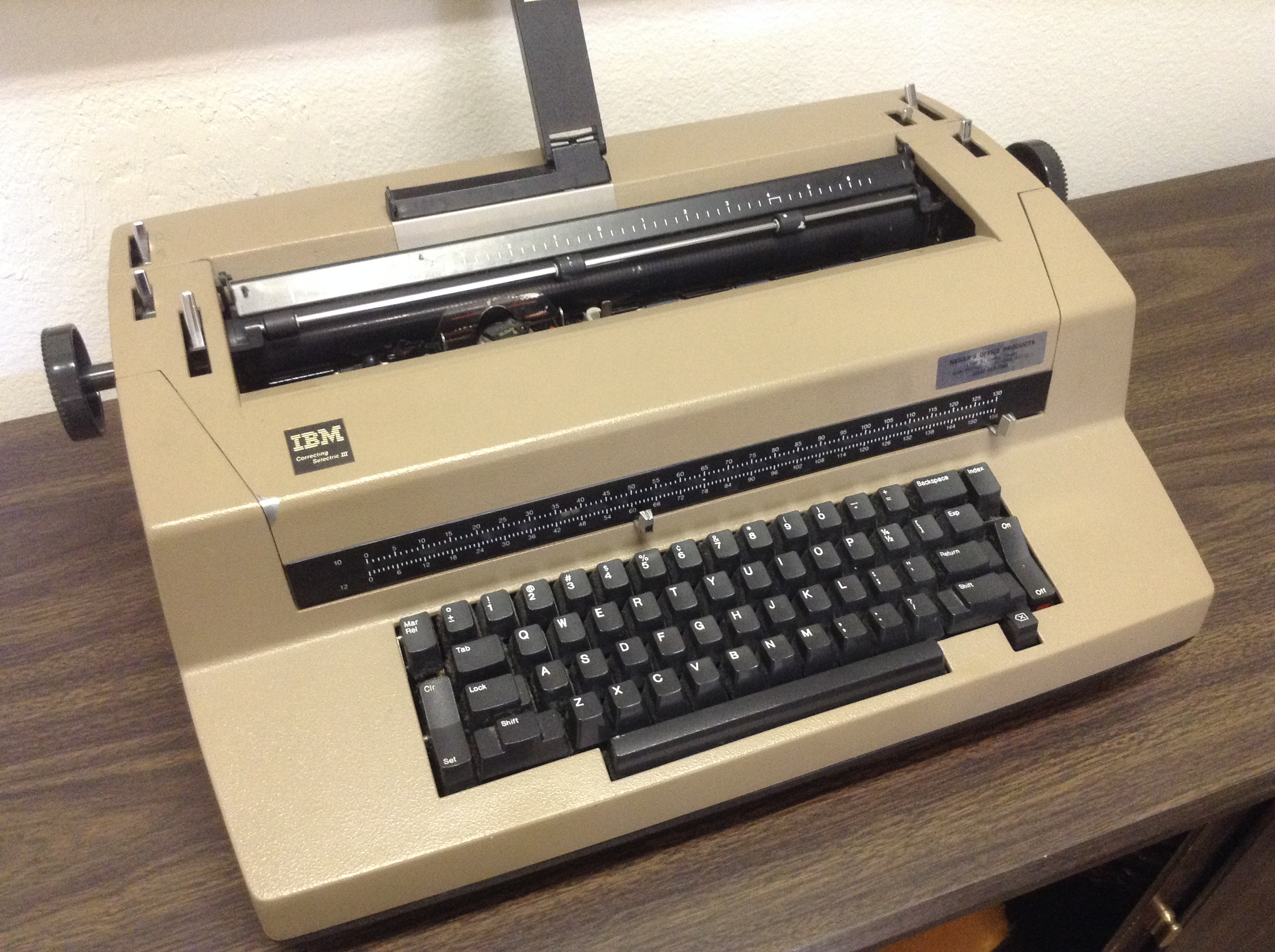 It's a picture of a typewriter